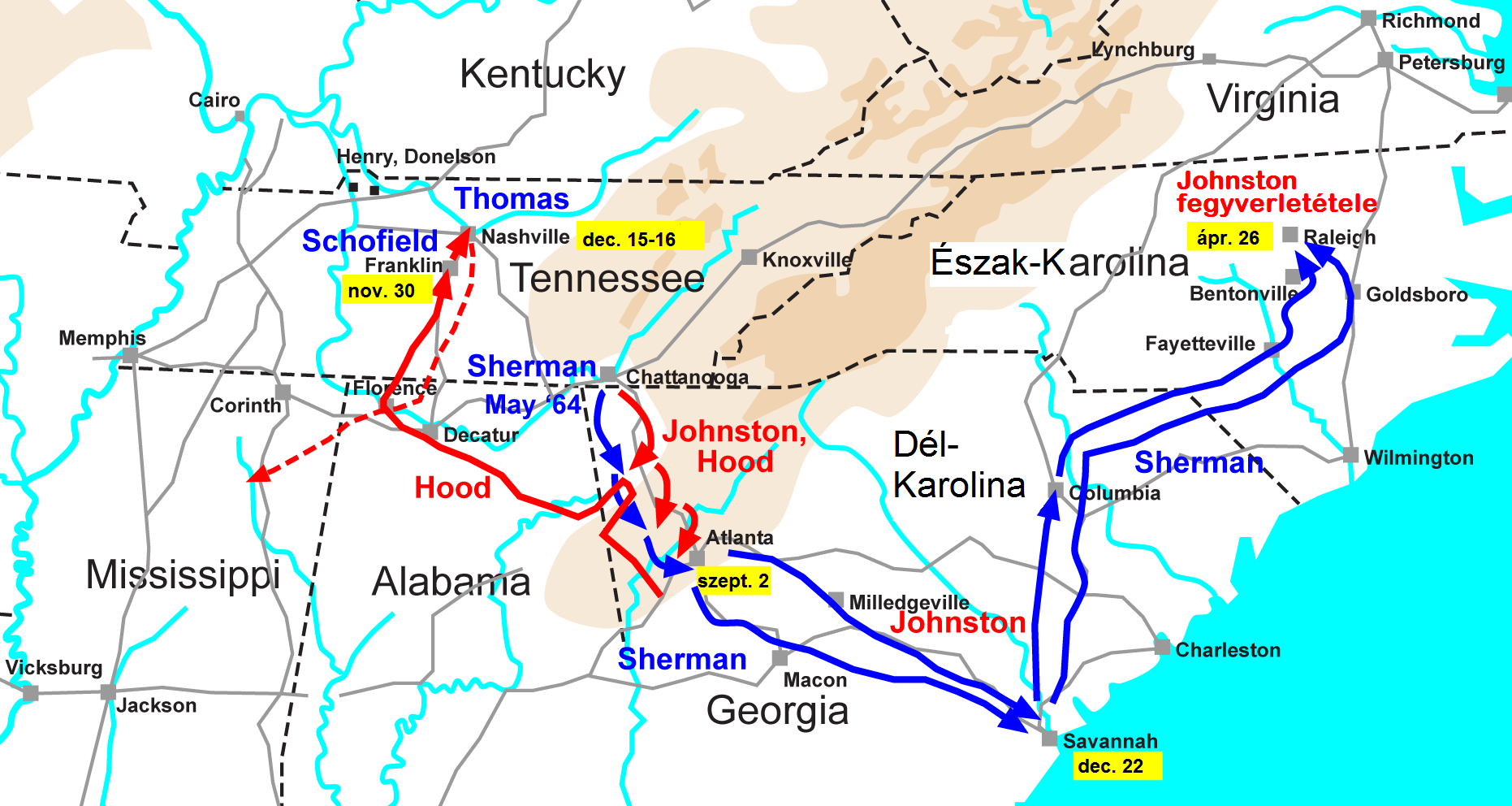 Map of the Western Theater of the American Civil War, actions from Chattanooga to the Carolinas. Gen. Sherman's operation in 1864-1865